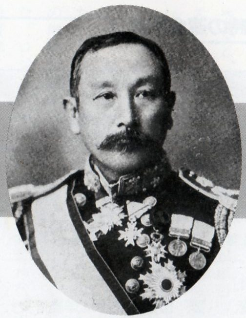 Uryu Sotokichi is an Imperial Japanese Navy Full Asmiral